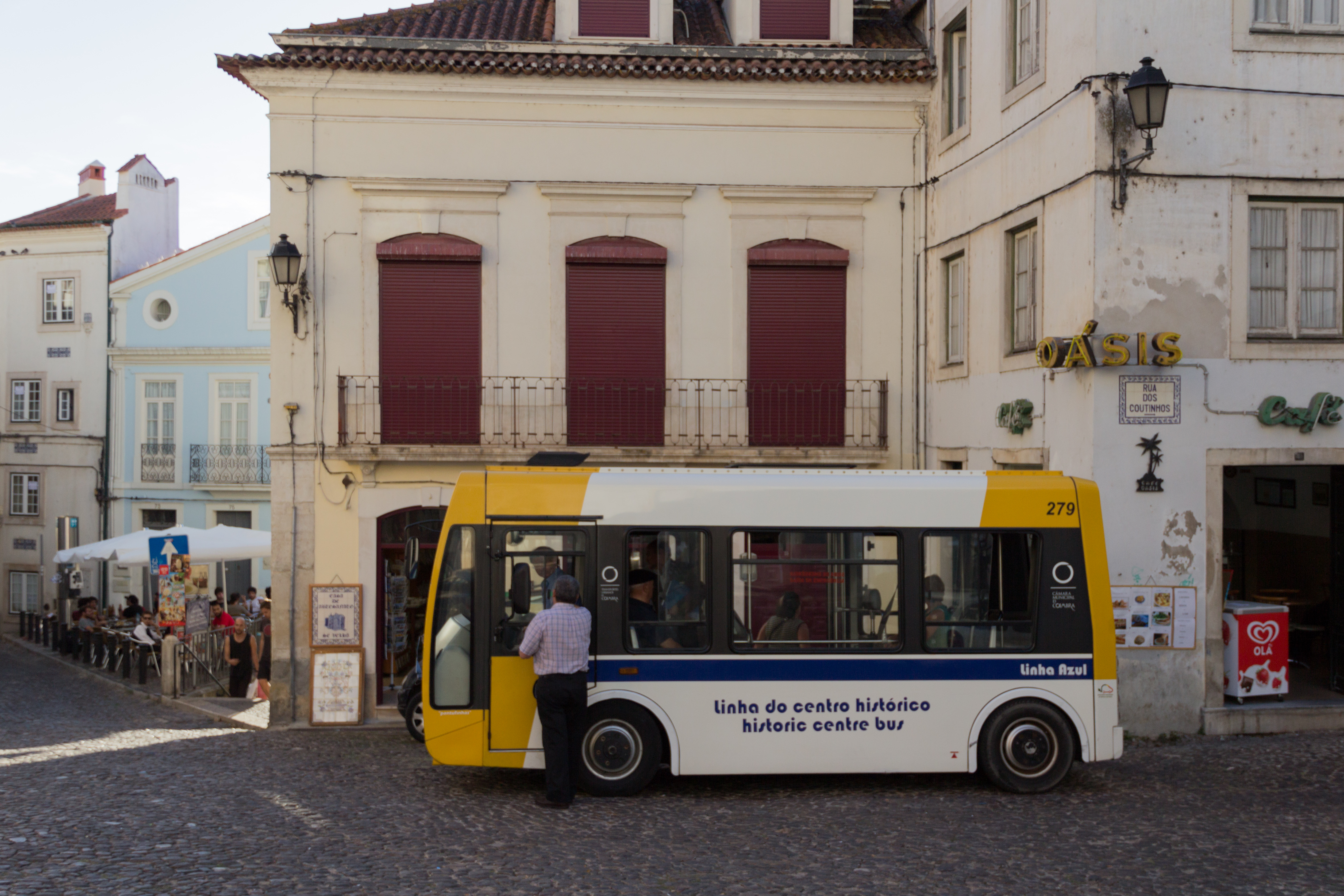 Coimbra short bus